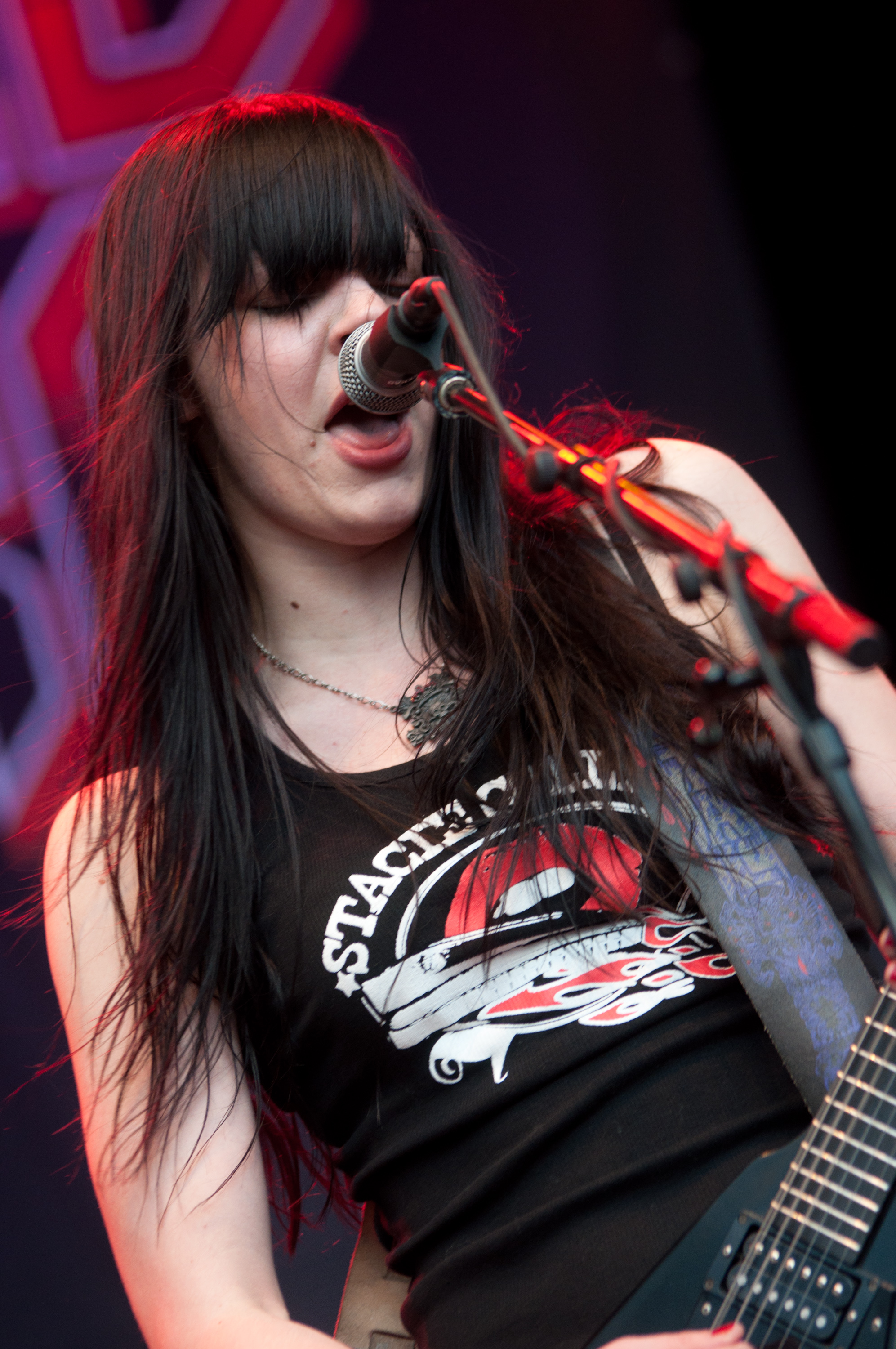 Swedish band Crucified Barbara